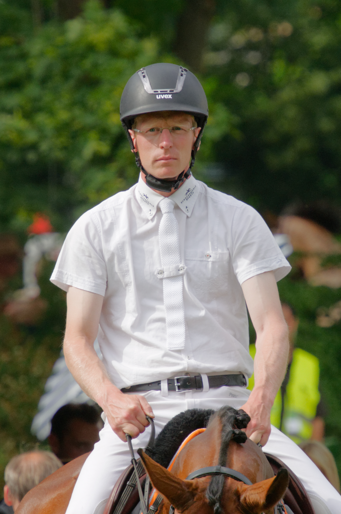 Internationales Pfingstturnier Wiesbaden 2014 The making of this document was supported by the Community-Budget of Wikimedia Germany.